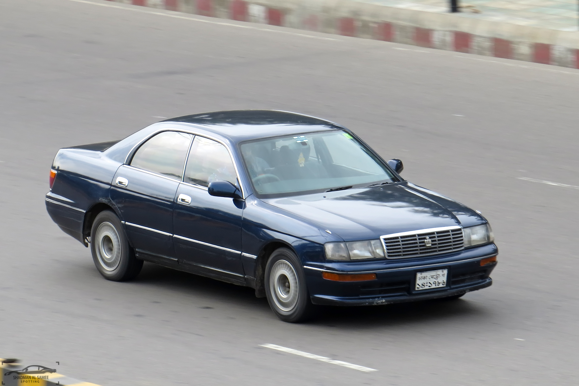 Airport Rd 2017.